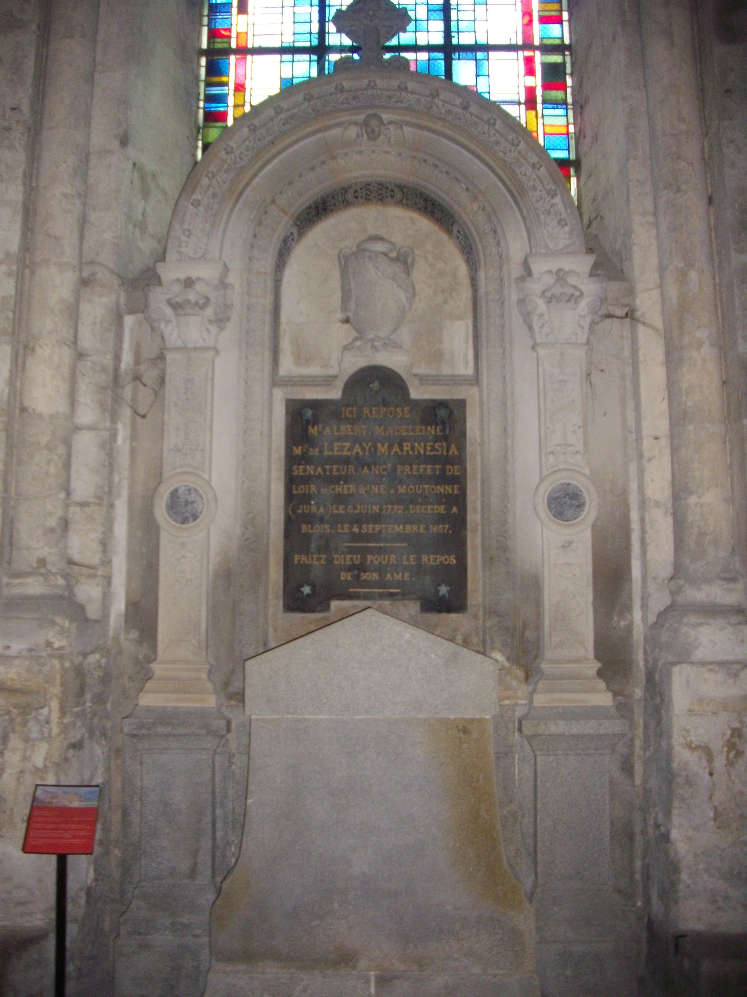 Saint Nicholas church of Blois (Loir-et-Cher, France), grave of Albert-Magdelaine-Claude de Lezay-Marnésia .